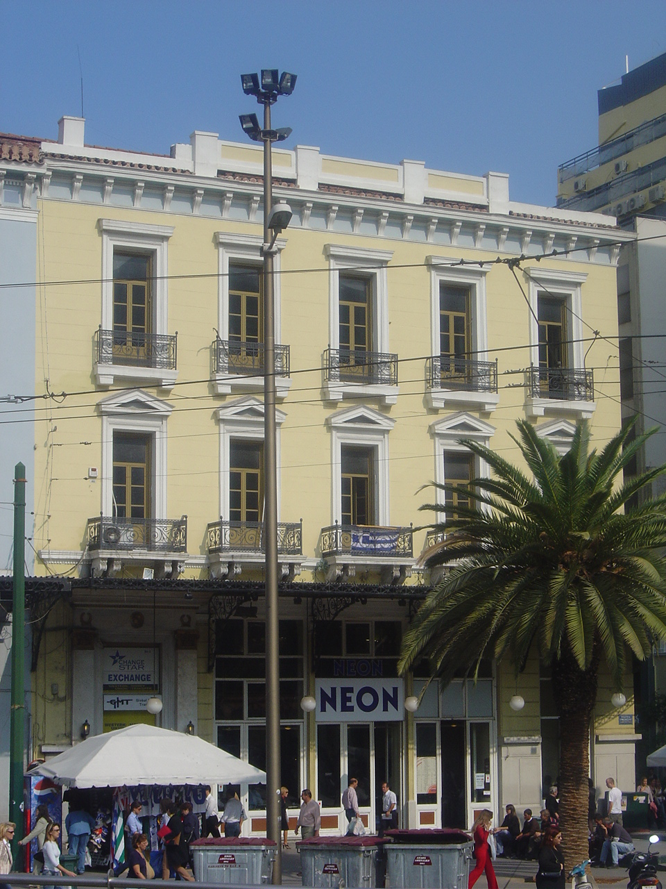 Cafe Neon in Athens, Greece